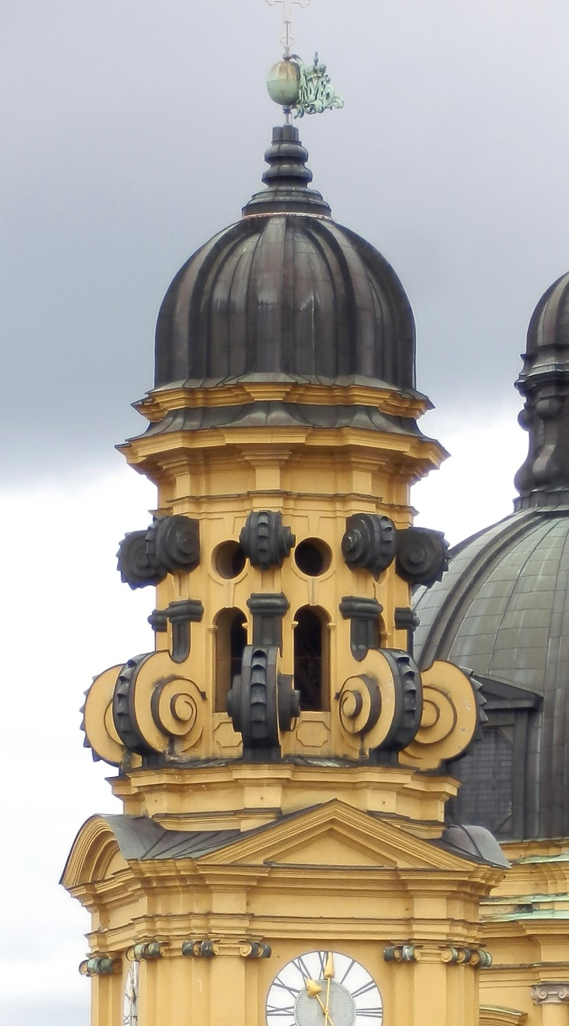 Southern tower of the Theatine church in Munich. The typical volutes decorating the uppermost storey originally have been devised by Antonio Spinelli